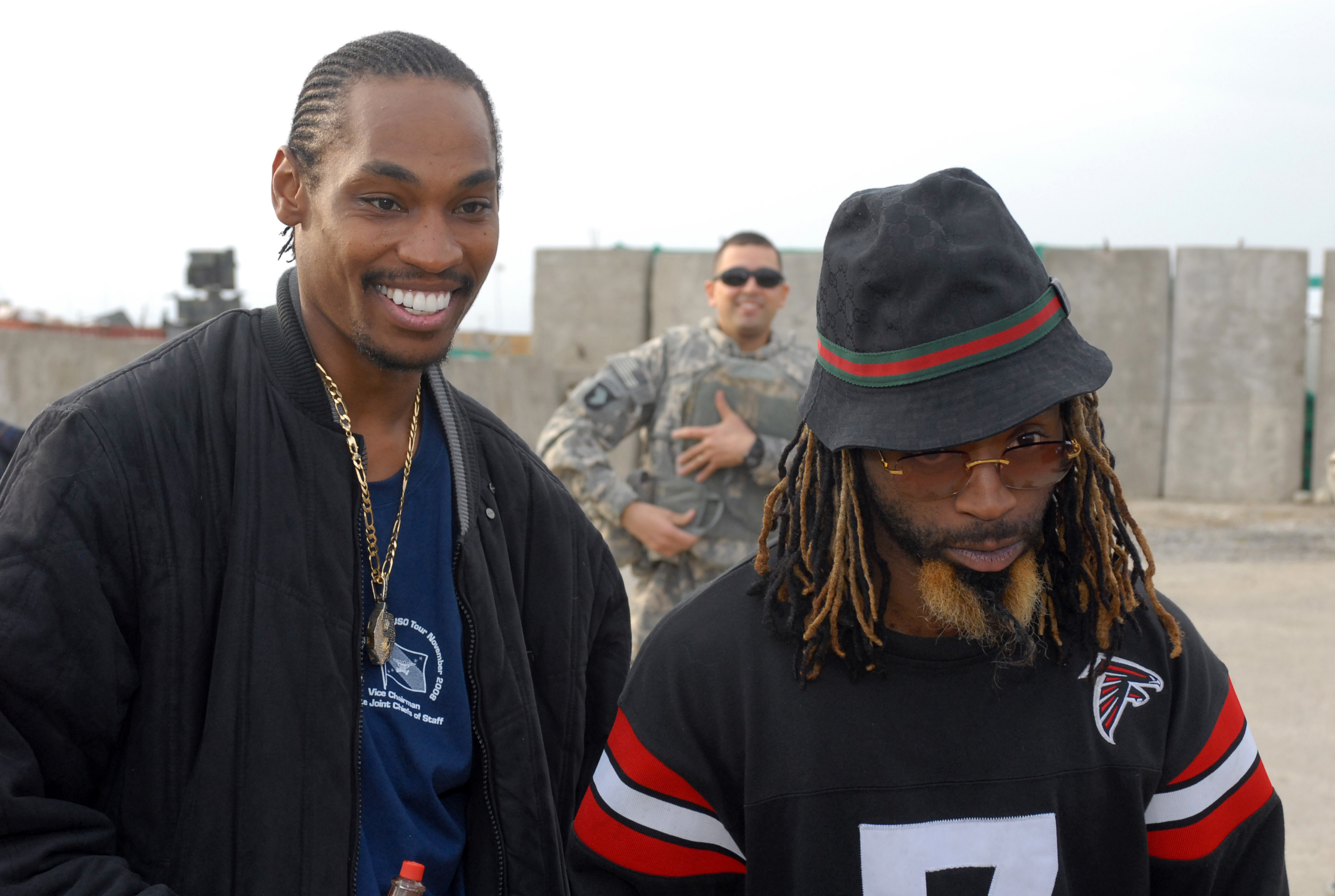 Rappers Ying Yang Twins spoke to the camera sending a brief message to the audience back home saying they support our troops.